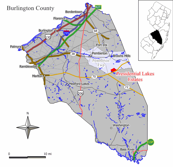 Source: Jim Irwin Original work by Jim Irwin, December 2005.